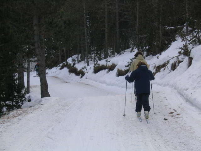 Cross-country skiing resort in Tuixen